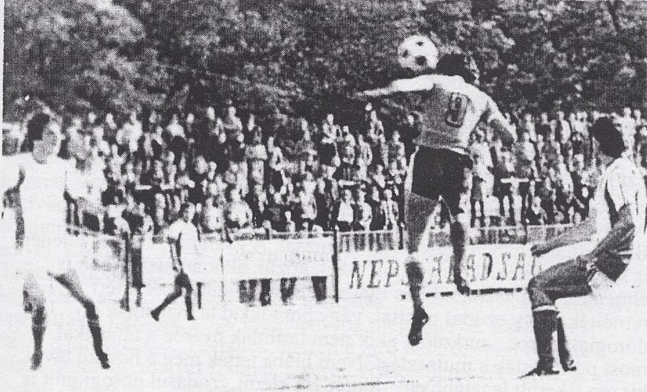 Dorog vs Szekszard in 1978.